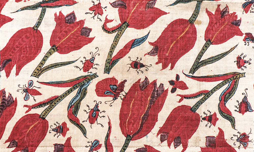 Chintz fragment with tulips and insects (reportedly found in Japan), Coromandel Coast, India, ca.1700-30. 0.13 x 0.20 m (5″ x 8″). Hand-drawn on cotton cloth using dyes, mordants and resists. Karun Thakar Collection Ben Evans muses on how this fact and its historical significance can be understood through the lens of Indian textiles: For me, this chintz fragment has always loomed larger than its diminutive size since it unites a number of strands of interest in one object. It is a small piece of seemingly unimportant cloth in which, by looking a little deeper, one can see that the lively drawing of tulips and insects is sketched in a manner reminiscent of botanical drawings of the 17th century, when European artists were recording the natural world. These have been copied by Indian artists with a vibrancy that, according to one expert, reflects the tulips seen on VOC export porcelain from the mid-17th century. That in itself is a remarkable instance of trade and design transfer, but the fact that this fragment was found in Japan adds another layer to its story. The HALI Tour to Japan in 2019 revealed the extraordinary reverence paid there to Indian cotton, a fabric that in Britain, and perhaps elsewhere in the West, had lost its lustre and appeal through its ubiquity—indeed the adjective ‘chintzy’ even became a pejorative term. The care taken to preserve the textile and the value attached to its function instils this humble scrap of cloth with new meaning for me and can serve as a metaphor for the appreciation of Indian textiles exported for generations across the world.